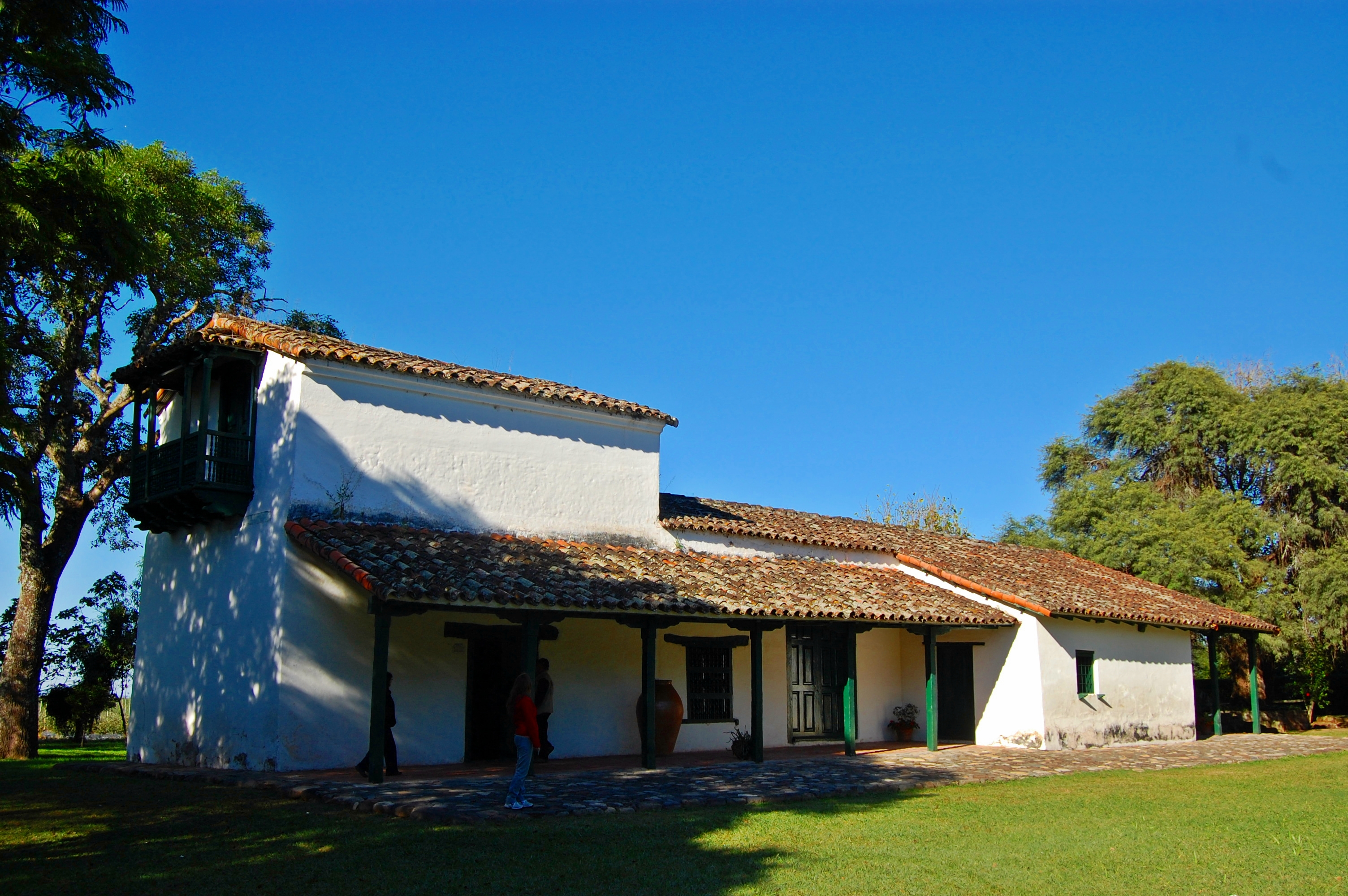 Posta de Yatasto